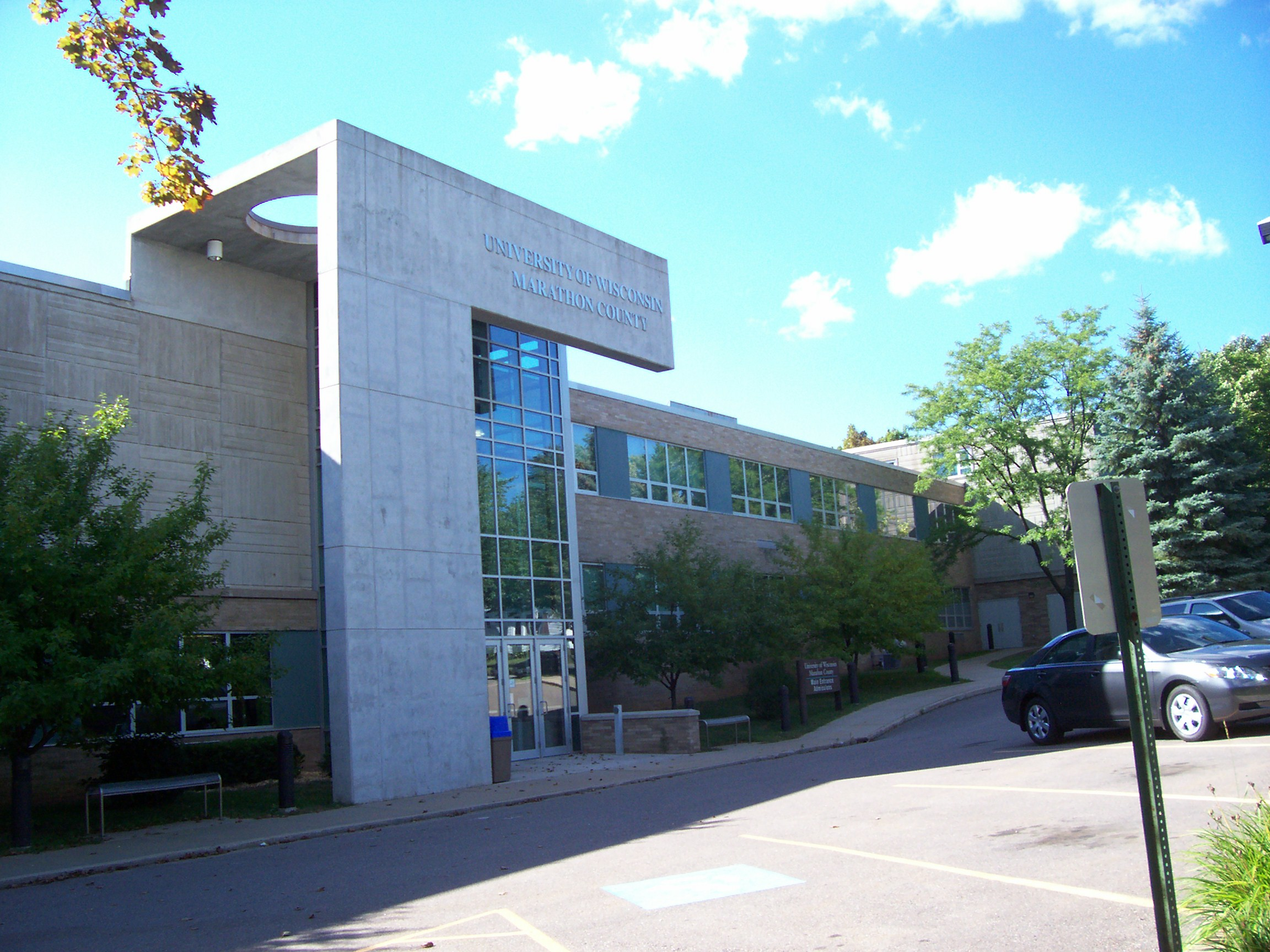 The main (east) entrance at the University of Wisconsin-Marathon County in Wausau, Wisconsin, USA.